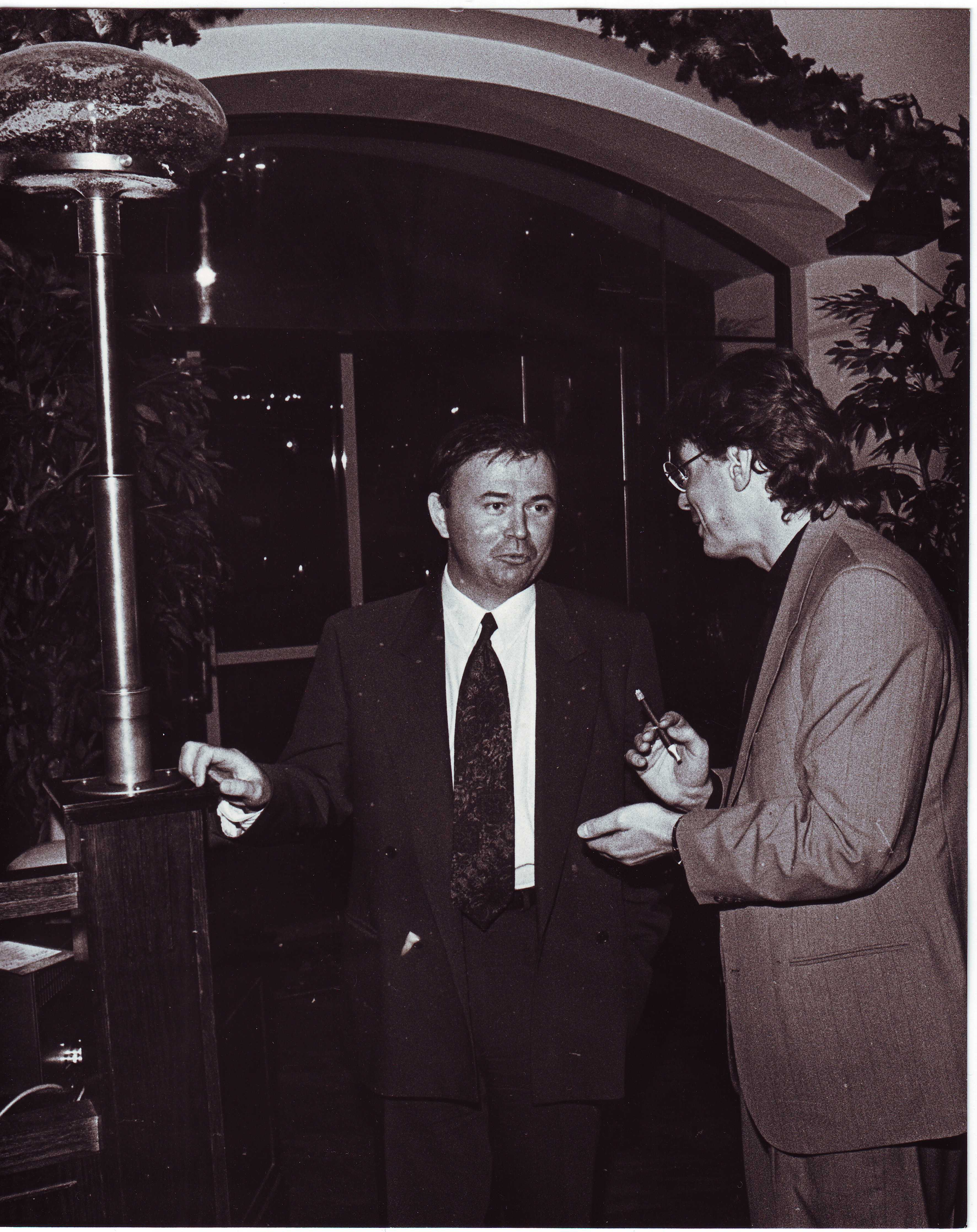 Andrey Karaulov and Evgeny Dodolev